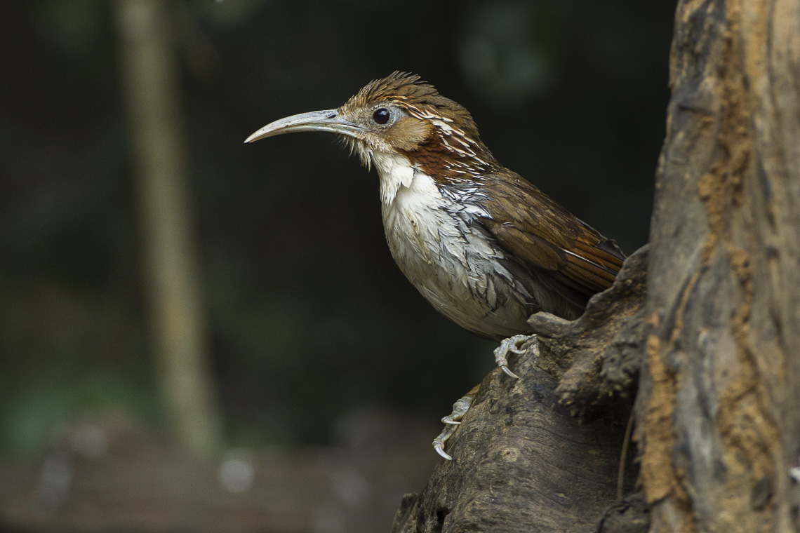 Large Scimitar-babbler - Thailand _S4E7225